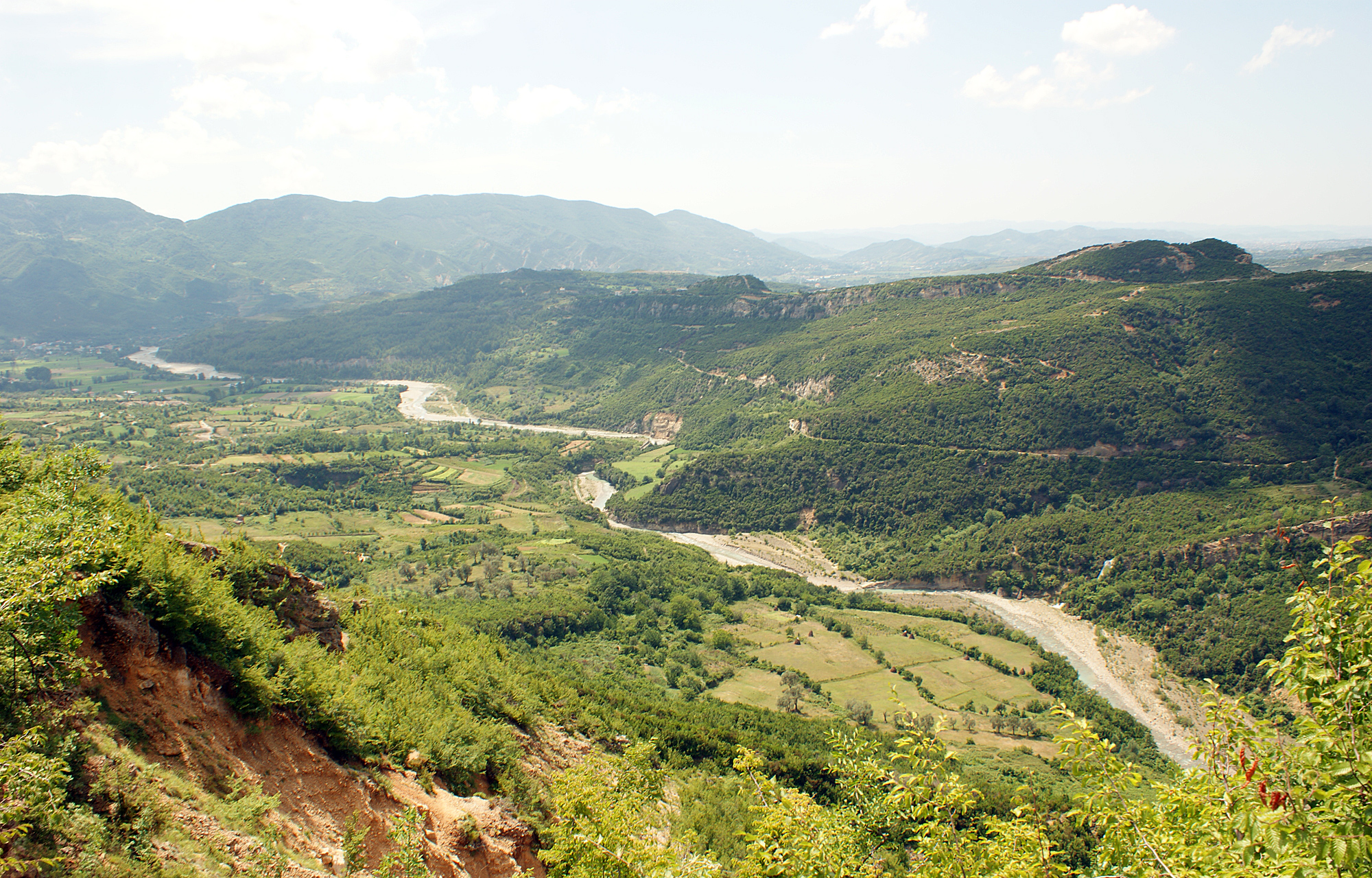 The River Erzen close to the village of Iba, South of Tirana, Albania